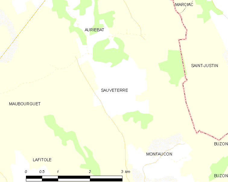 Map of French municipality